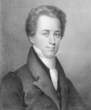 Portrait of Edward Beecher. Drawn by Thomas Edwards, printed by Annin & Smith. "Portrait of Rev. Edward Beecher, Congregational clergyman, pastor of Park Street Church, Boston, from 1826 to 1830 and president of Illinois College from 1831 to 1844."